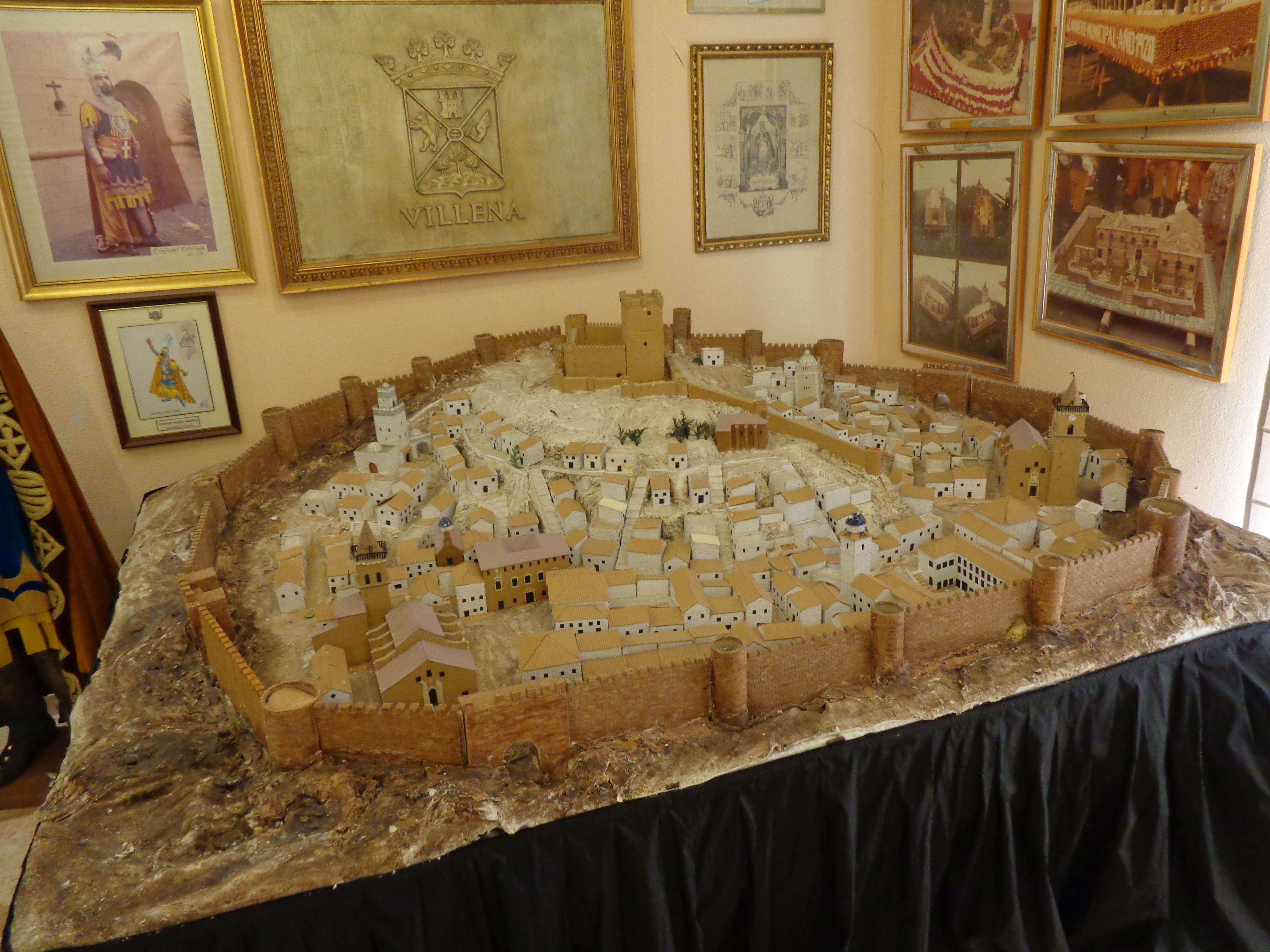 Casa del Festero, Villena, Spain 28.140-032.